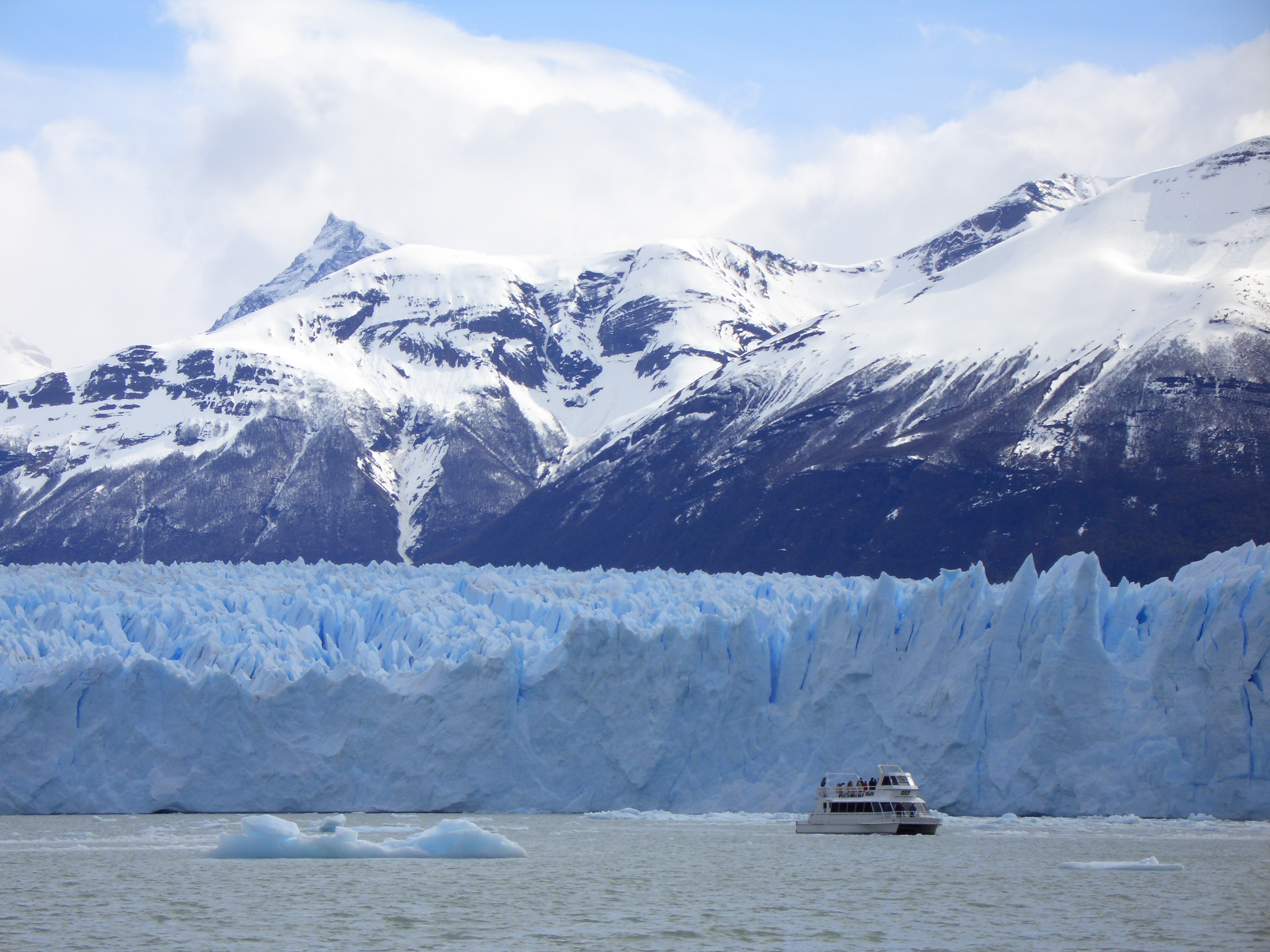 Perito Moreno Glacier, in Los Glaciares National Park, southern Argentina